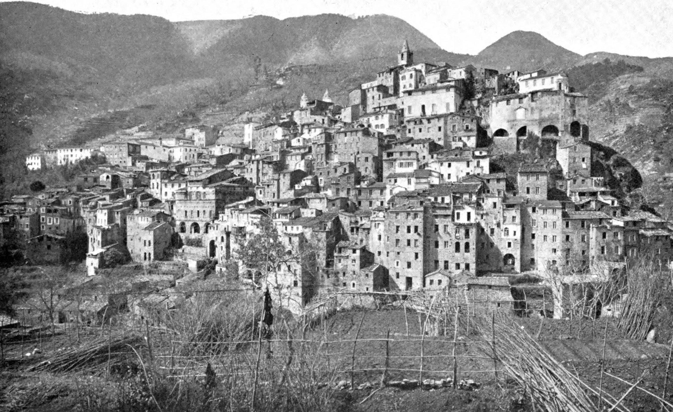 View of Ceriana on the Italian Riviera. Image from a scanned version of the book "A Book of the Riviera" by Sabine Baring-Gould from Image has been cropped and sepia tone removed.